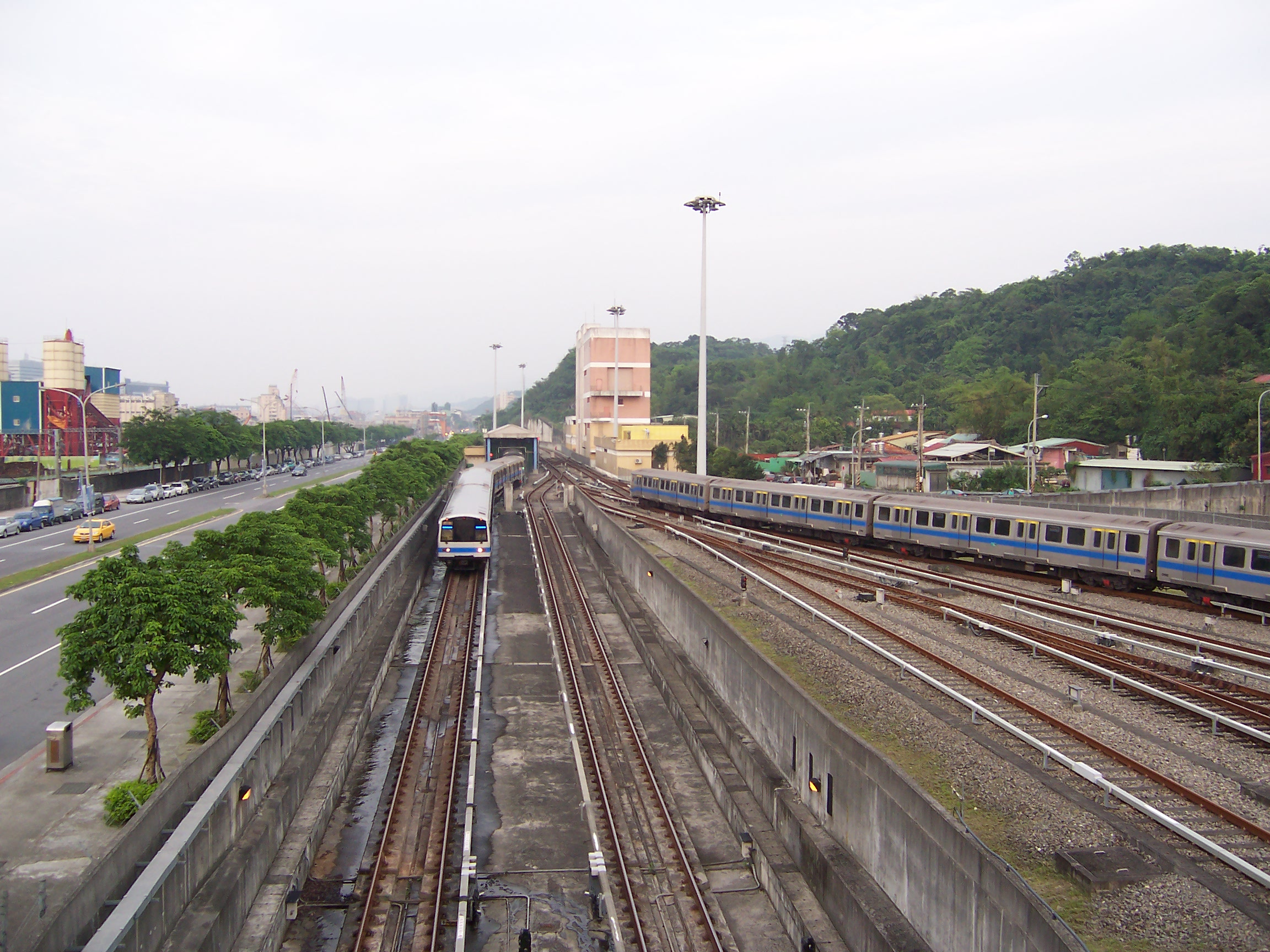 南港機廠一隅。左側列車正要從清洗軌轉入正線，右側列車正從駐車廠離開。 A corner of Nangang depot.